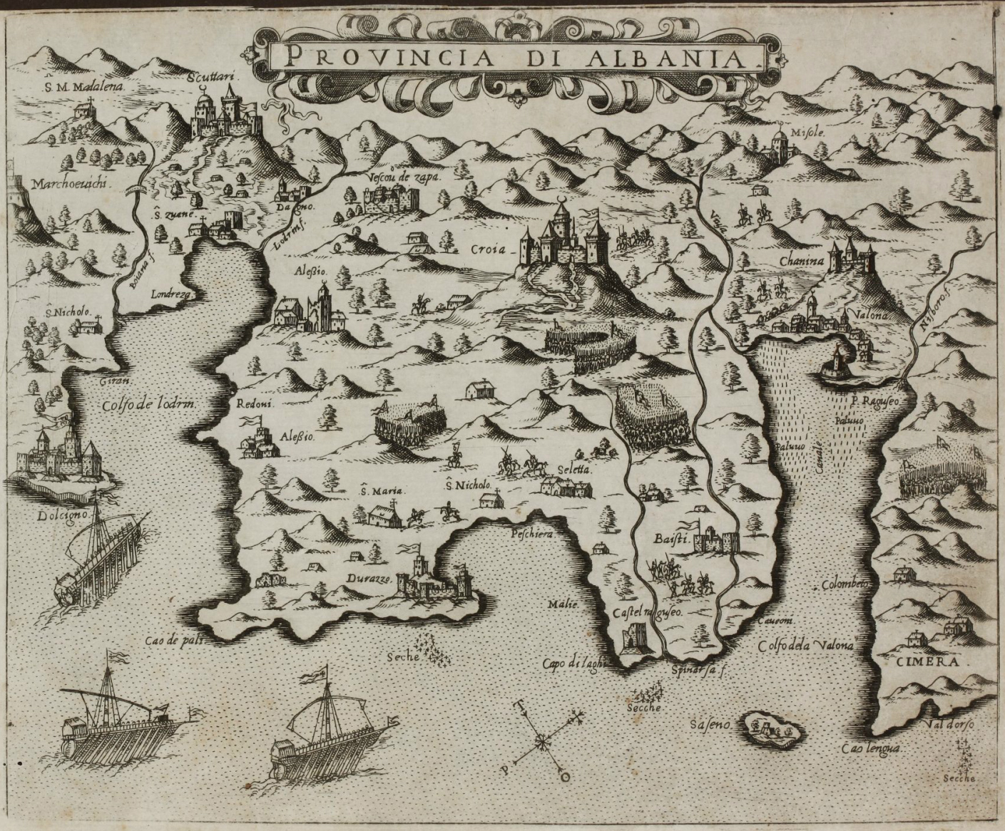 Map of Albania in 1571 by Giovanni Francesco Camocio.